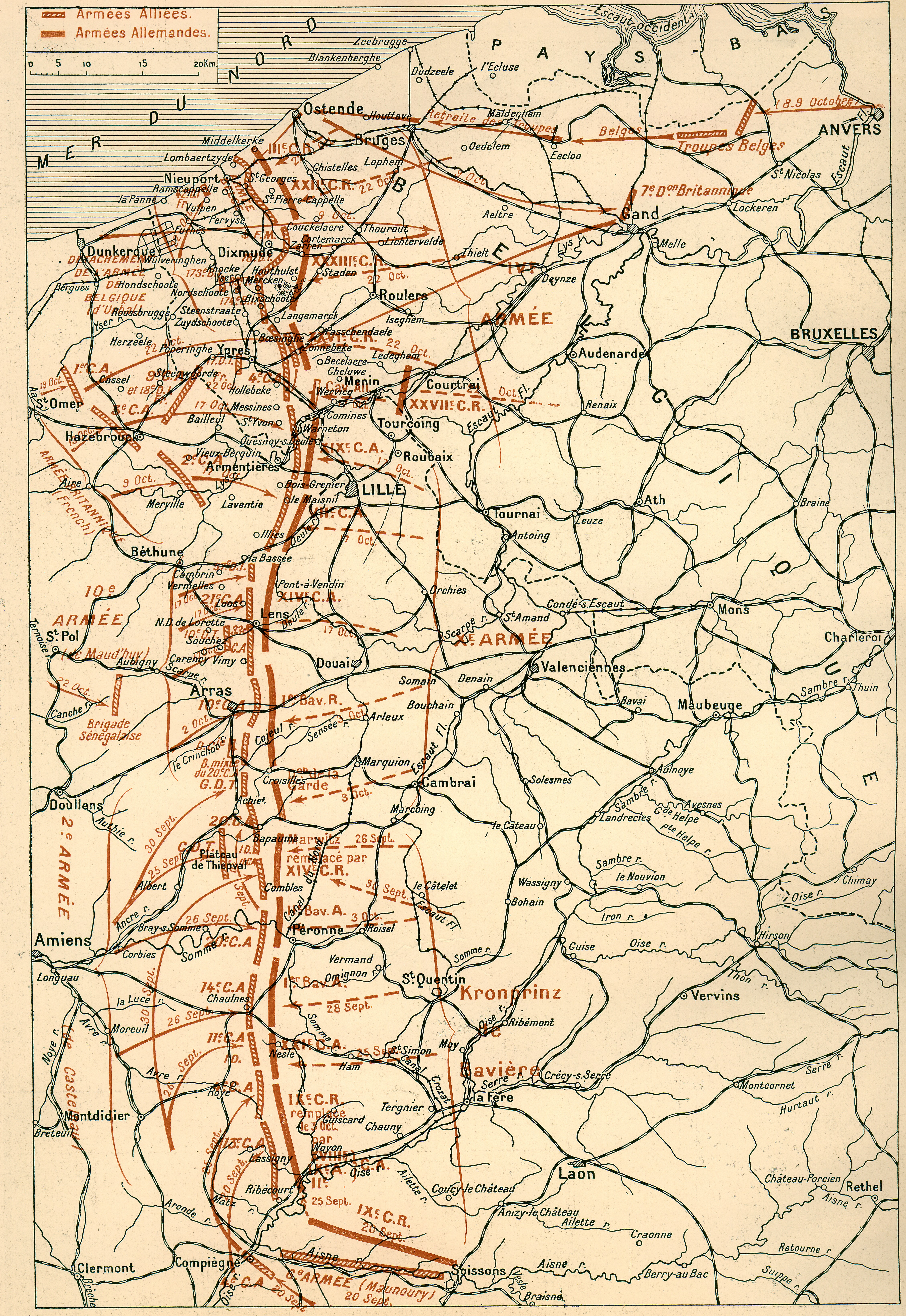 a contemporary french map of the "race to the sea" during the world war 1 in 1914, after the first Battle of the Marne and the Battle of the Aisne (high resolution)